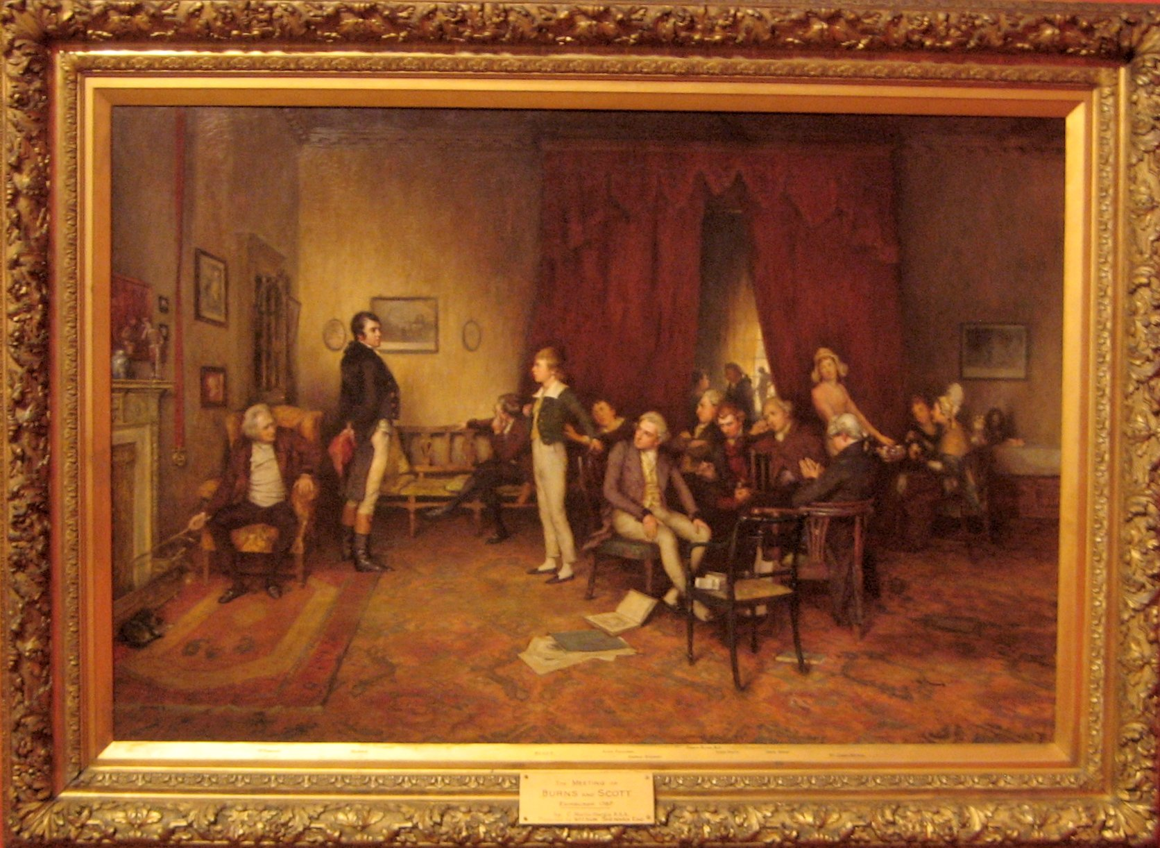 The Meeting of Burns and Scott, oil on canvas painting by Charles Hardie, 1893, Dunedin Public Art Gallery